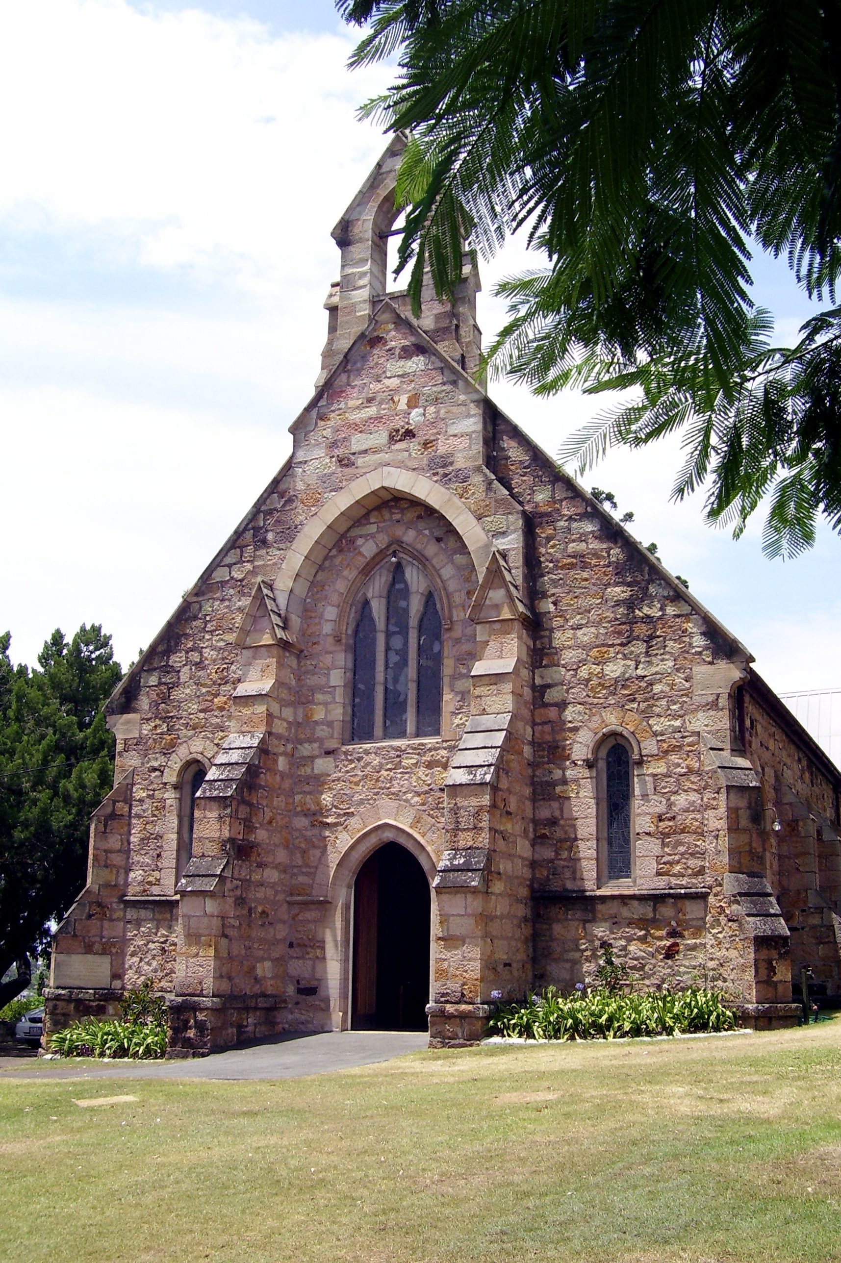 St Mary's Anglican Church, Kangaroo Point, Brisbane, West Front